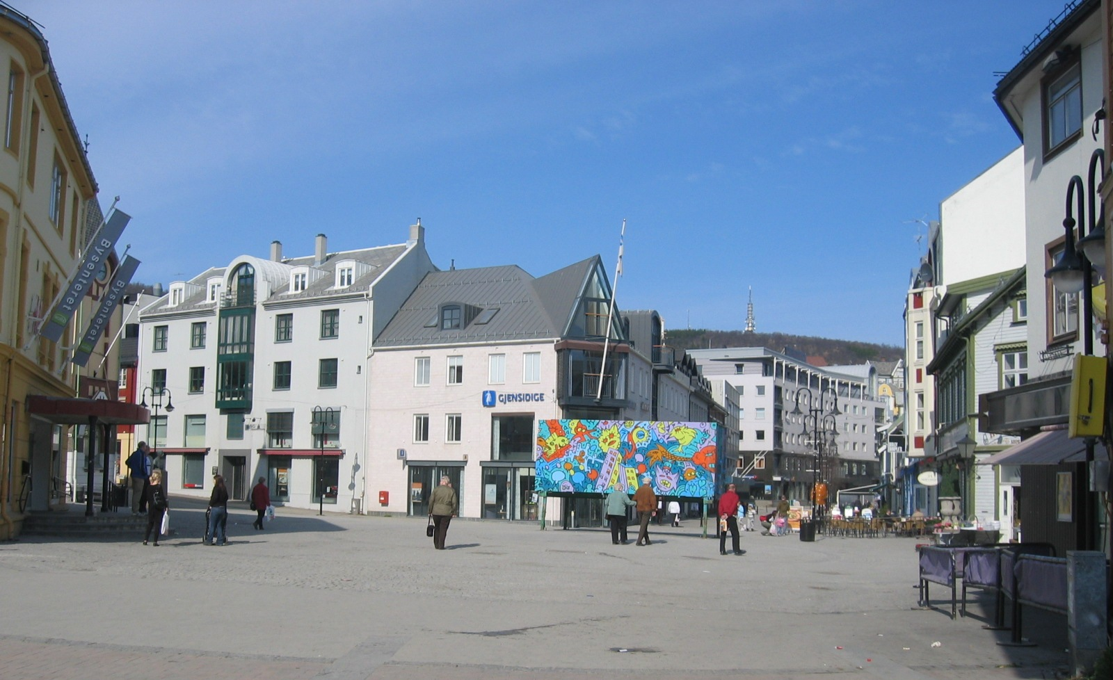 Centre of Harstad